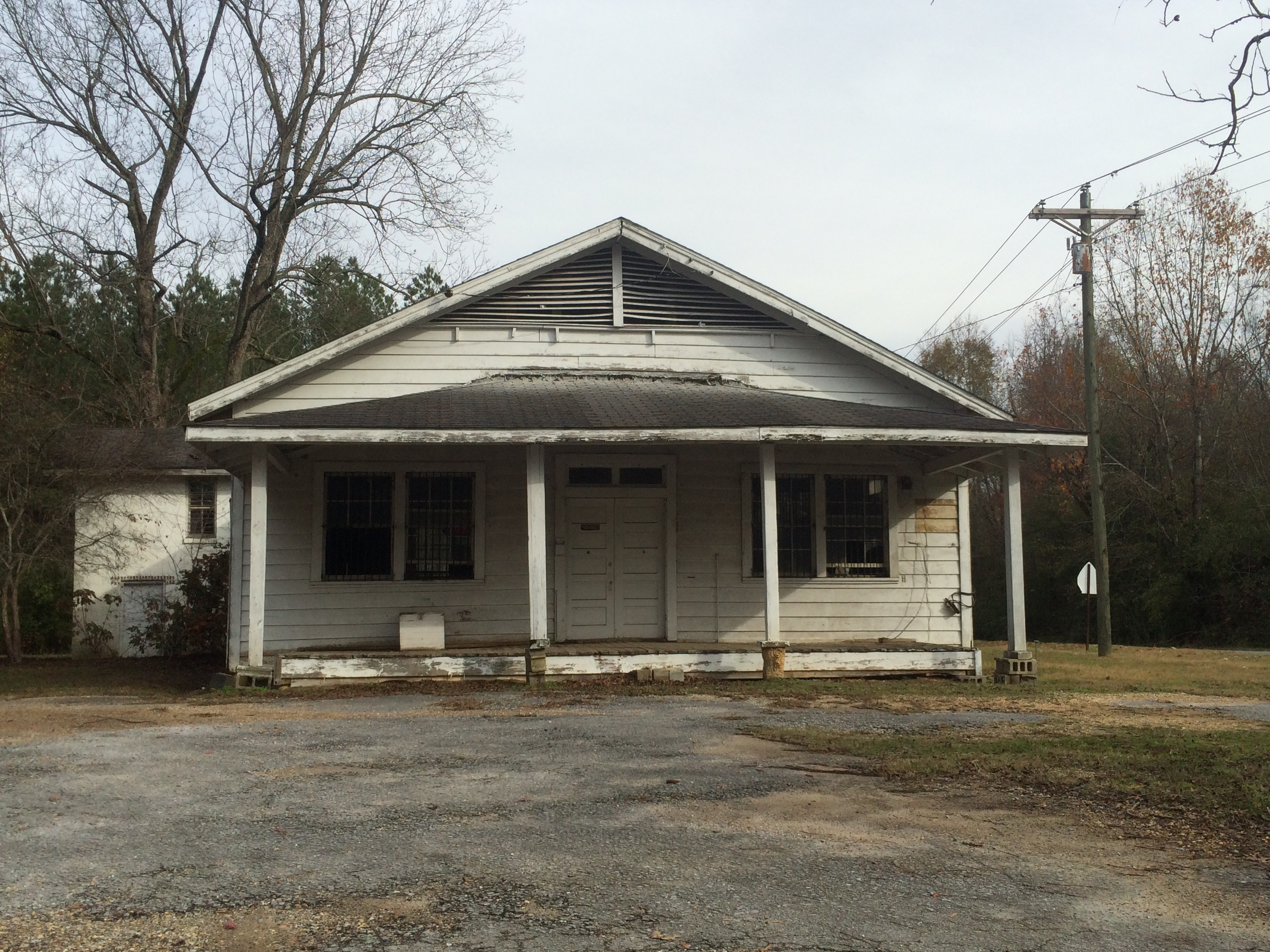 The old Post Office building in Mantua, Alabama.